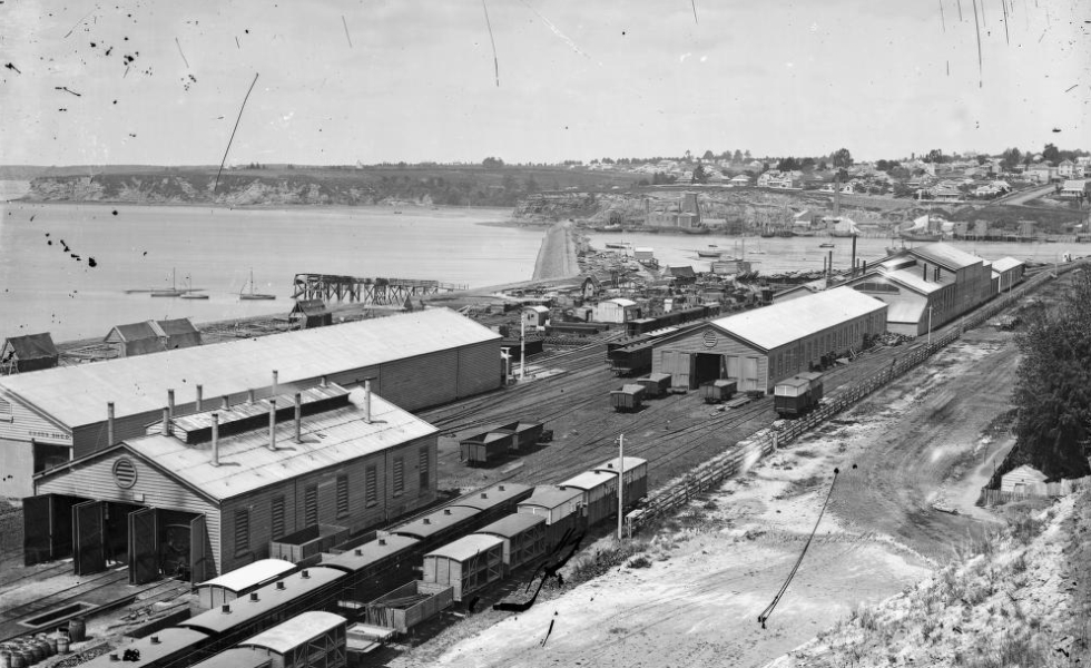 Looking east over the rail workshops east of today's Auckland CBD, with the causeway that became Tamaki Drive visible in the middle distance. New Zealand in the 1880s. Extended information on origin webpage reads: Railway workshops, Auckland, circa 1880s, before the shift to Newmarket. Parnell, St George's Bay, and Point Resolution, are in the background. Photograph taken by Hemus and Hanna.